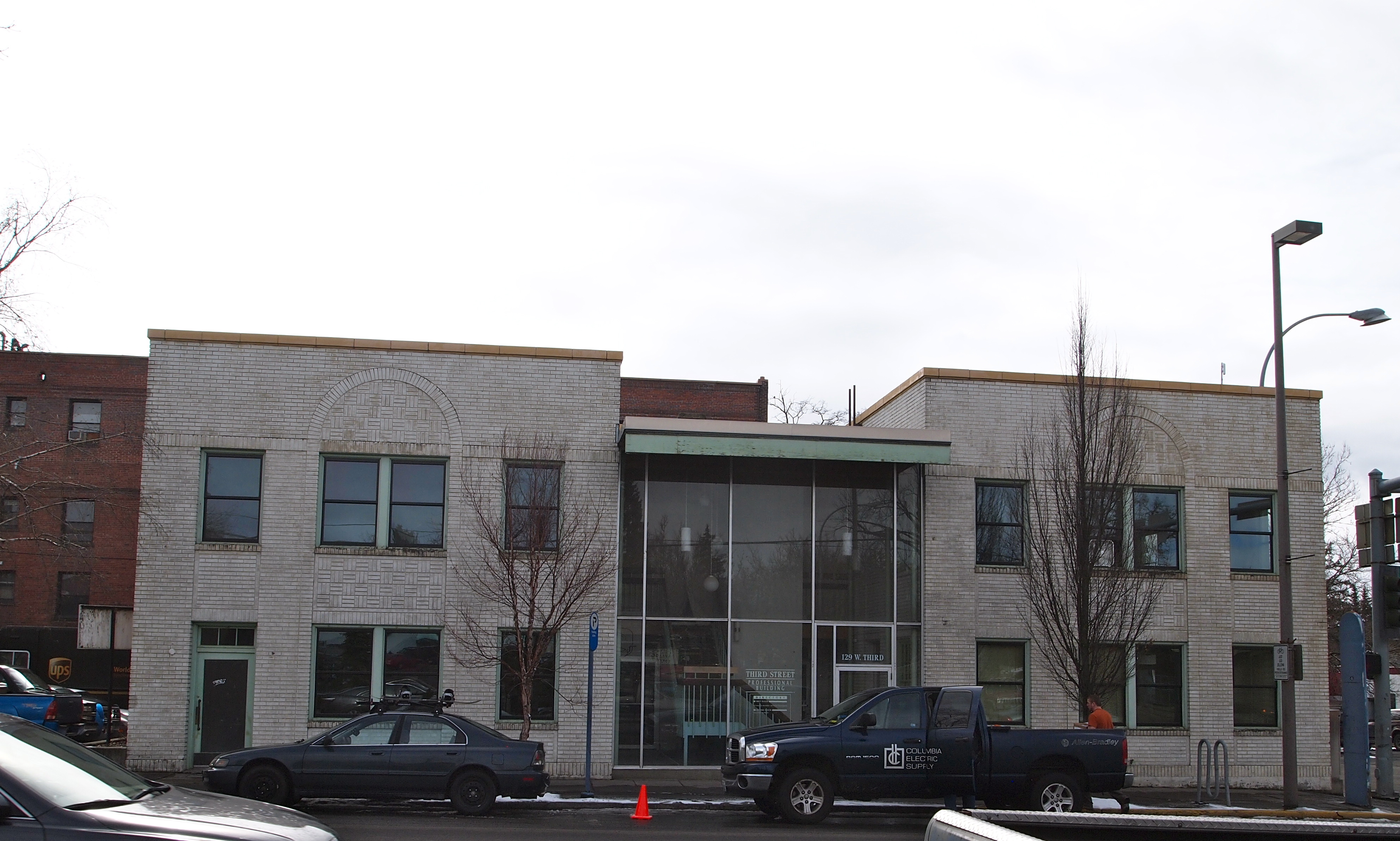 Architecture, Historic Preservation